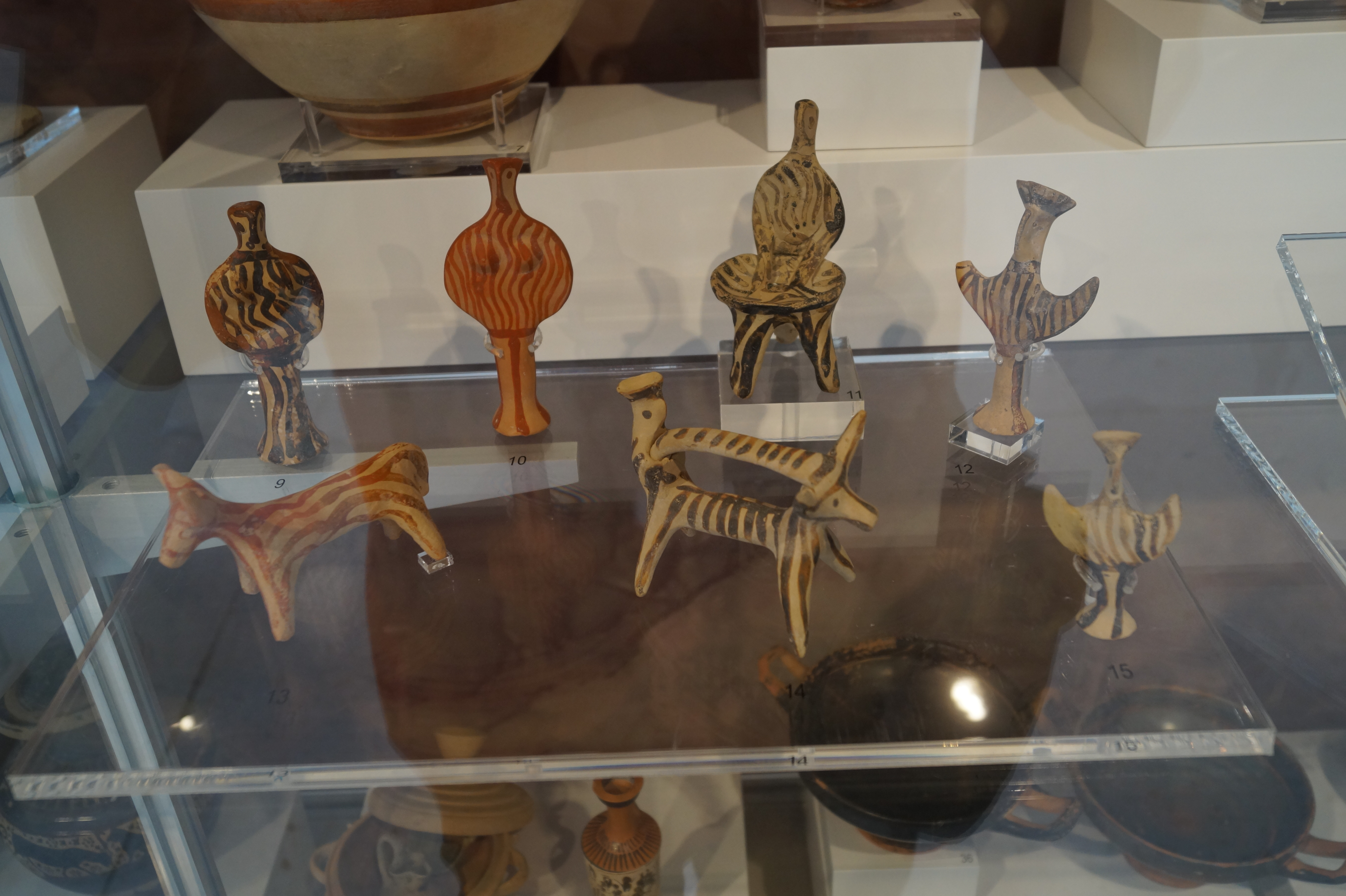 Archaeological Museum of Isthmia: Figurines from the mycenaean cemetery of Yiriza.9: Proto-Phi type figurine (LH III A1; 1400-1350 BC)10: Phi type figurine (LH III A; 1400-1300 BC)11: Female figurine in front of a basin, perhaps kneading or washing (LH III A; 1400-1300 BC)12: Psi type figurine (LH III B; 1300-1200 BC)13: Bull figurine (LH III A; 1400-1300 BC)14: Male figurine plouging with a bull (LH III A; 1400-1300 BC)15: Psi type figurine (LH III B; 1300-1200 BC)